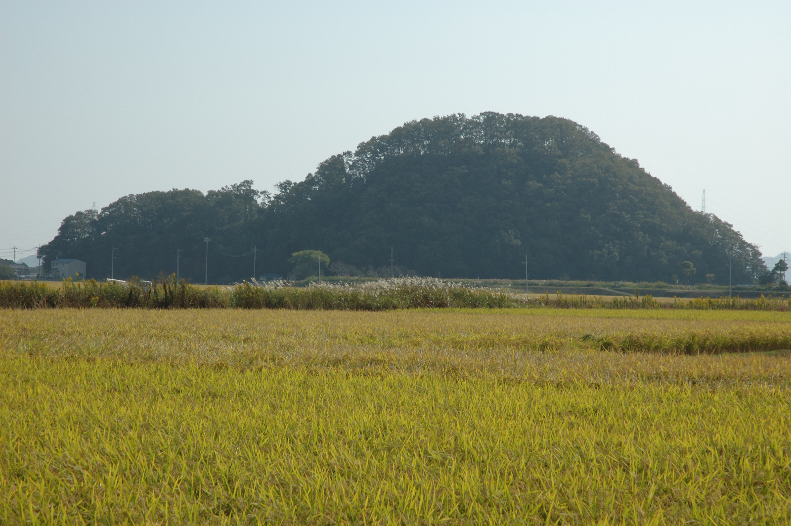 Otogo castle hill